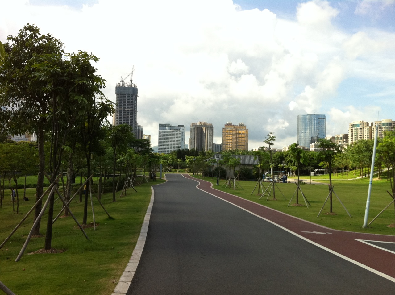 Pedestrian Path in Shenzhen Central Park